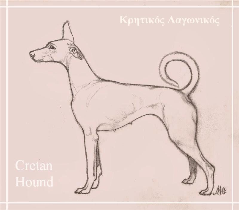 drawing of a typical specimen of Cretan Hound (female)